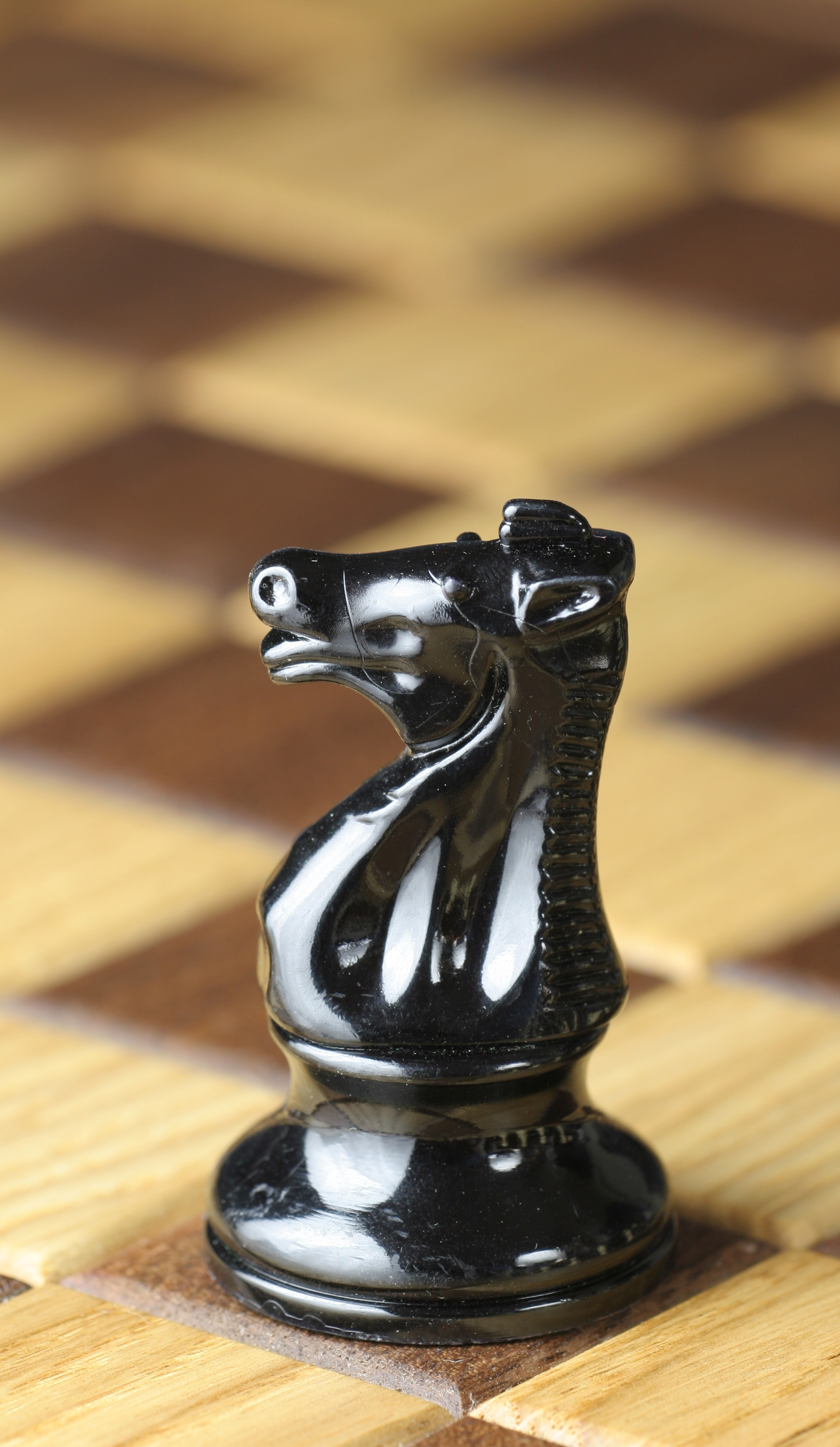 Chess piece - Black knight, Staunton design